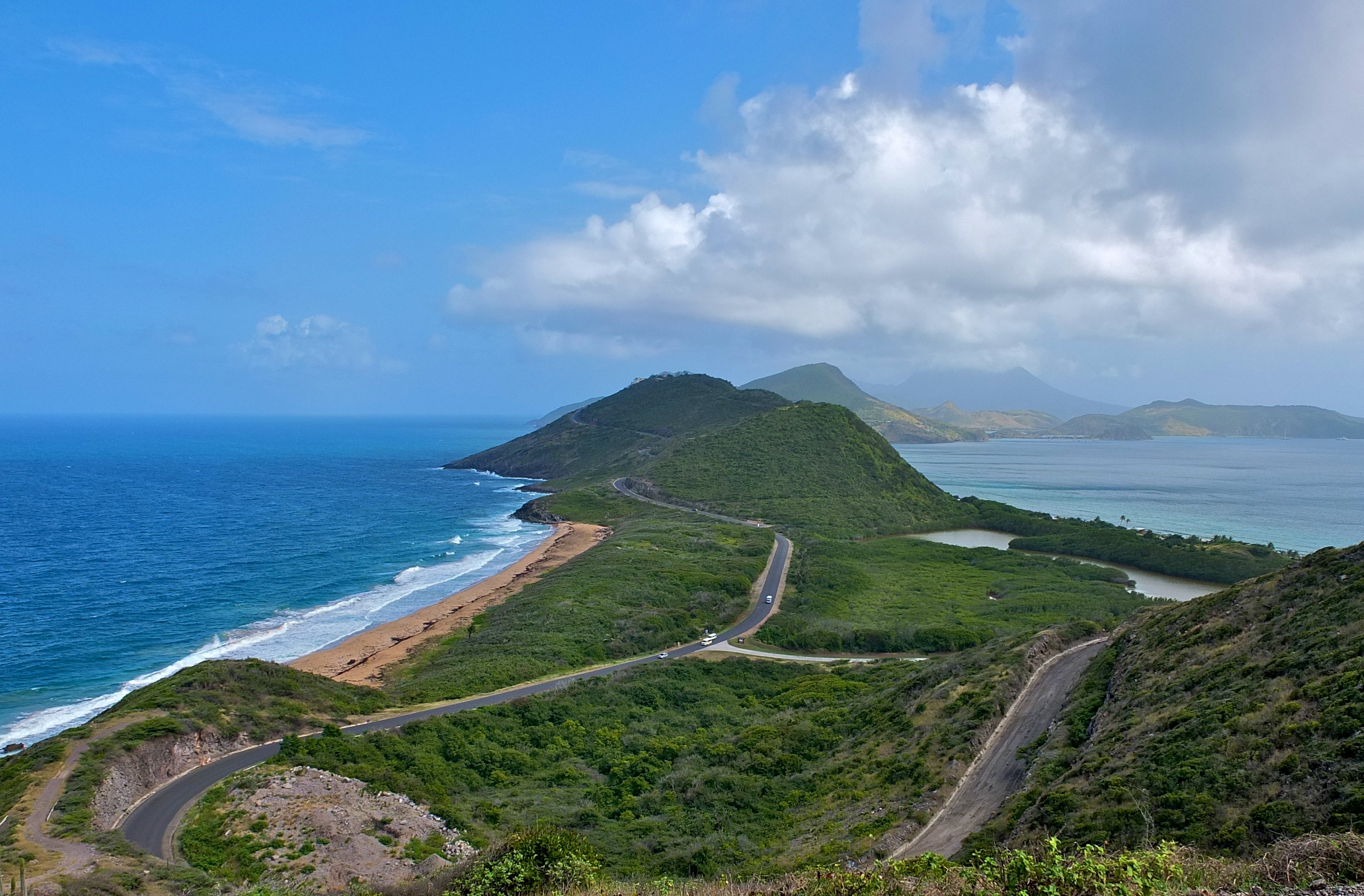 View from Sir Timothy's Hill, Saint Kitts. The Atlantic Ocean is to the left and the Caribbean Sea is to the right.